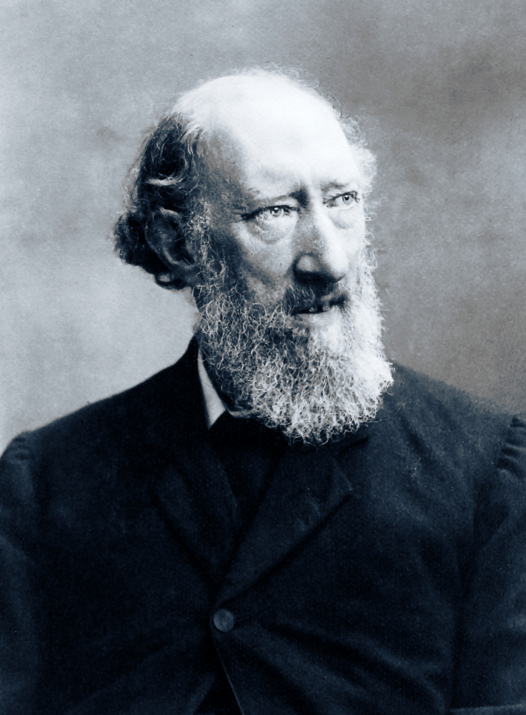 Digitaly processed file in Photoshop from a unprocessed source file, similar to the processed file in National Portrait Gallery ( The file is an early photo of English historian Samuel Rawson Gardiner (4 March 1829 - 24 February 1902)